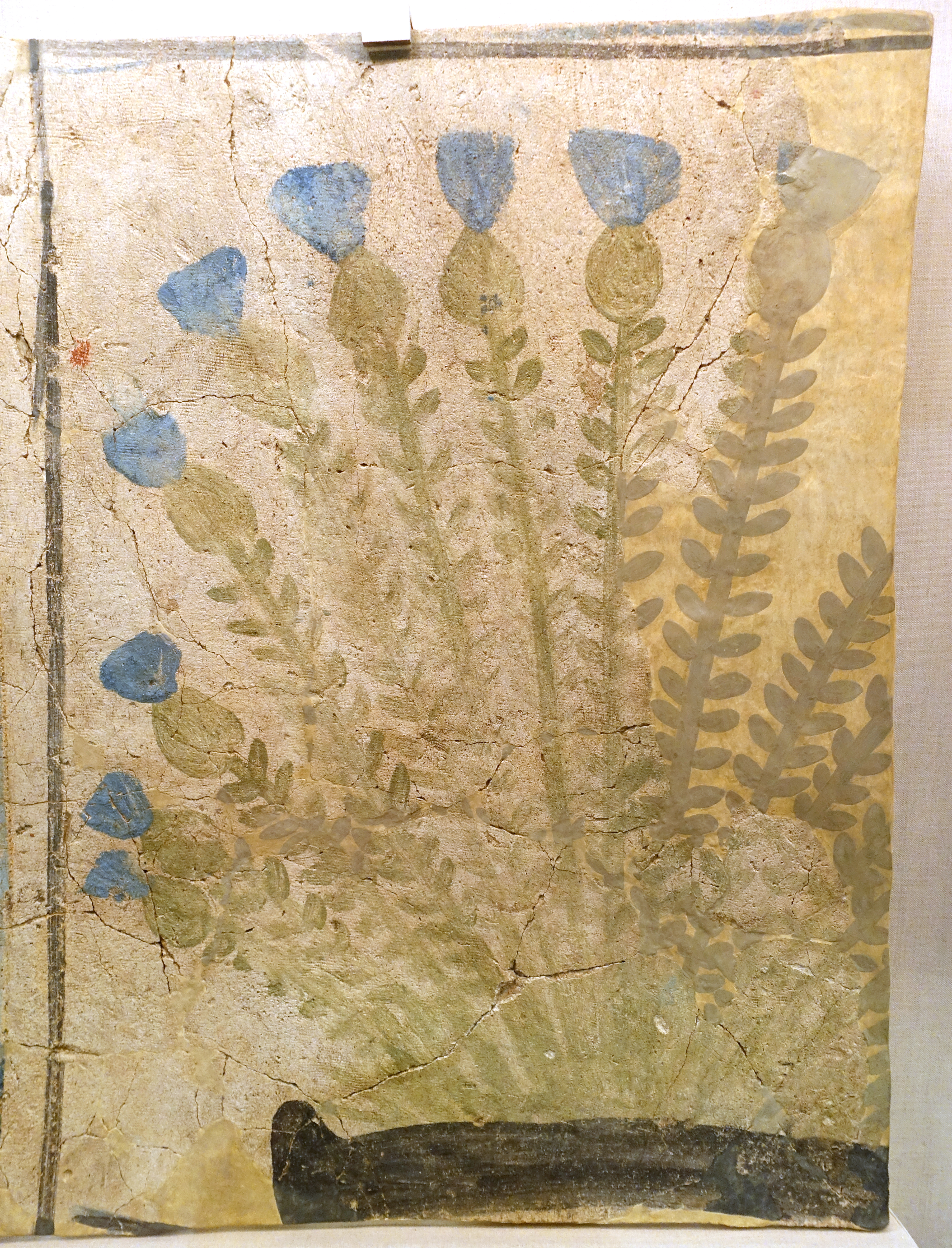 Exhibit in the Oriental Institute Museum, University of Chicago, Chicago, Illinois, USA. This work is old enough so that it is in the public domain.